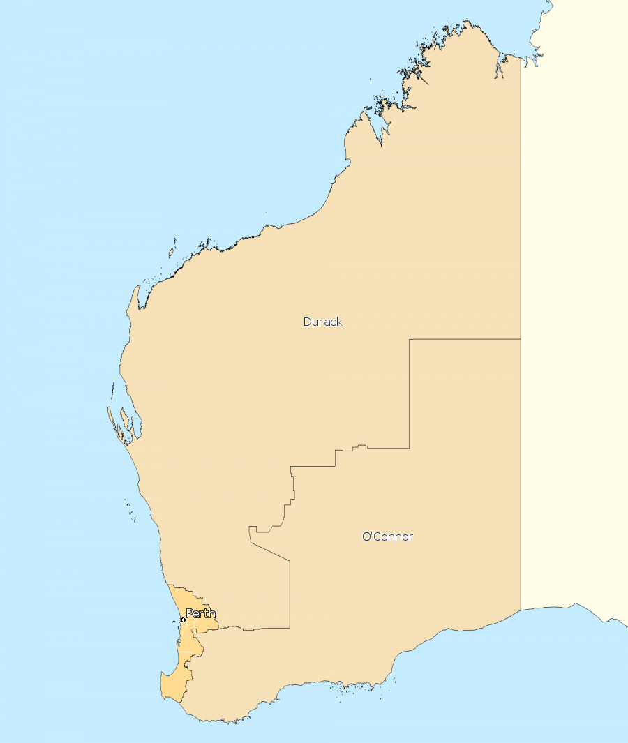 Incorporates or developed using Administrative Boundaries ©PSMA Australia Limited licensed by the Commonwealth of Australia under Creative Commons Attribution 4.0 International licence (CC BY 4.0). Derived from State and Territory Boundaries from the Australian Bureau of Statistics under Creative Commons Attribution 2.5 Australia license (CC BY 2.5 AU)